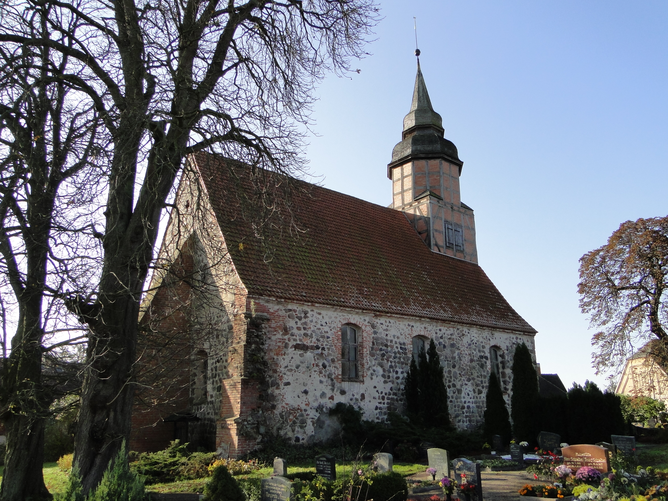 Church in Gevezin, district Mecklenburg-Strelitz, Mecklenburg-Vorpommern, Germany